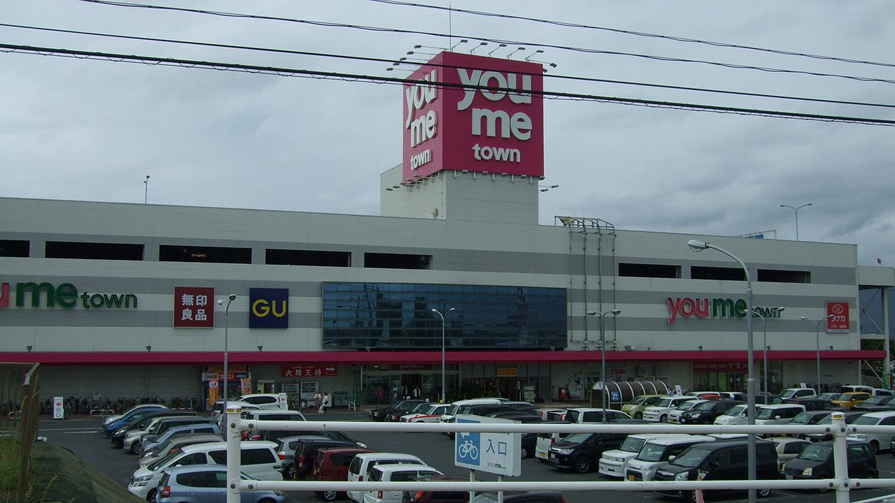 Youmetown Yukuhashi Shopping Mall, Yukuhashi City, Fukuoka, Japan